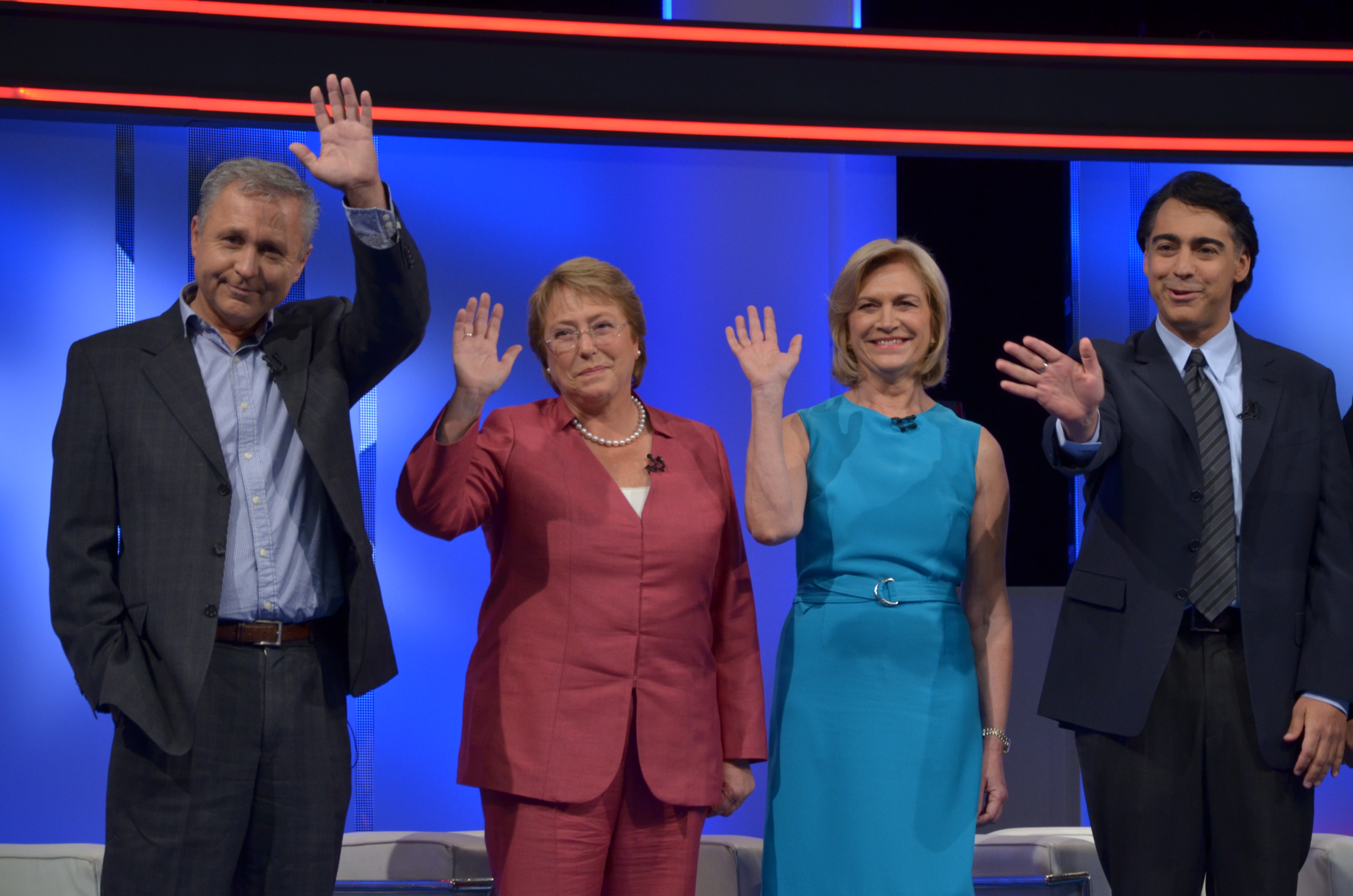 Chilean presidential candidates for the 2013 election. From left to right: Marcel Claude, Michelle Bachelet, Evelyn Matthei, and Marco Enríquez-Ominami.